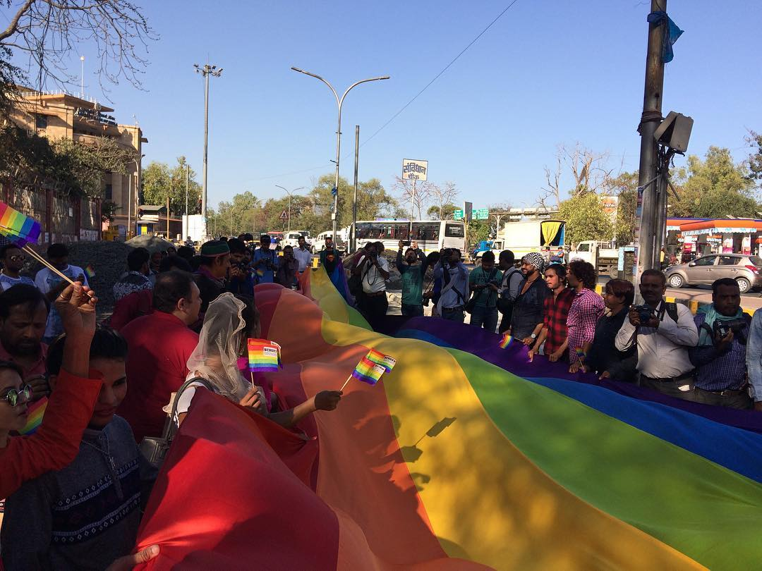 this is a picture taken at the LGBT pride march in Nagpur in 2017